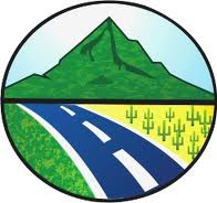 Escudo de el Municipio de Natagaima Tolima en Colombia